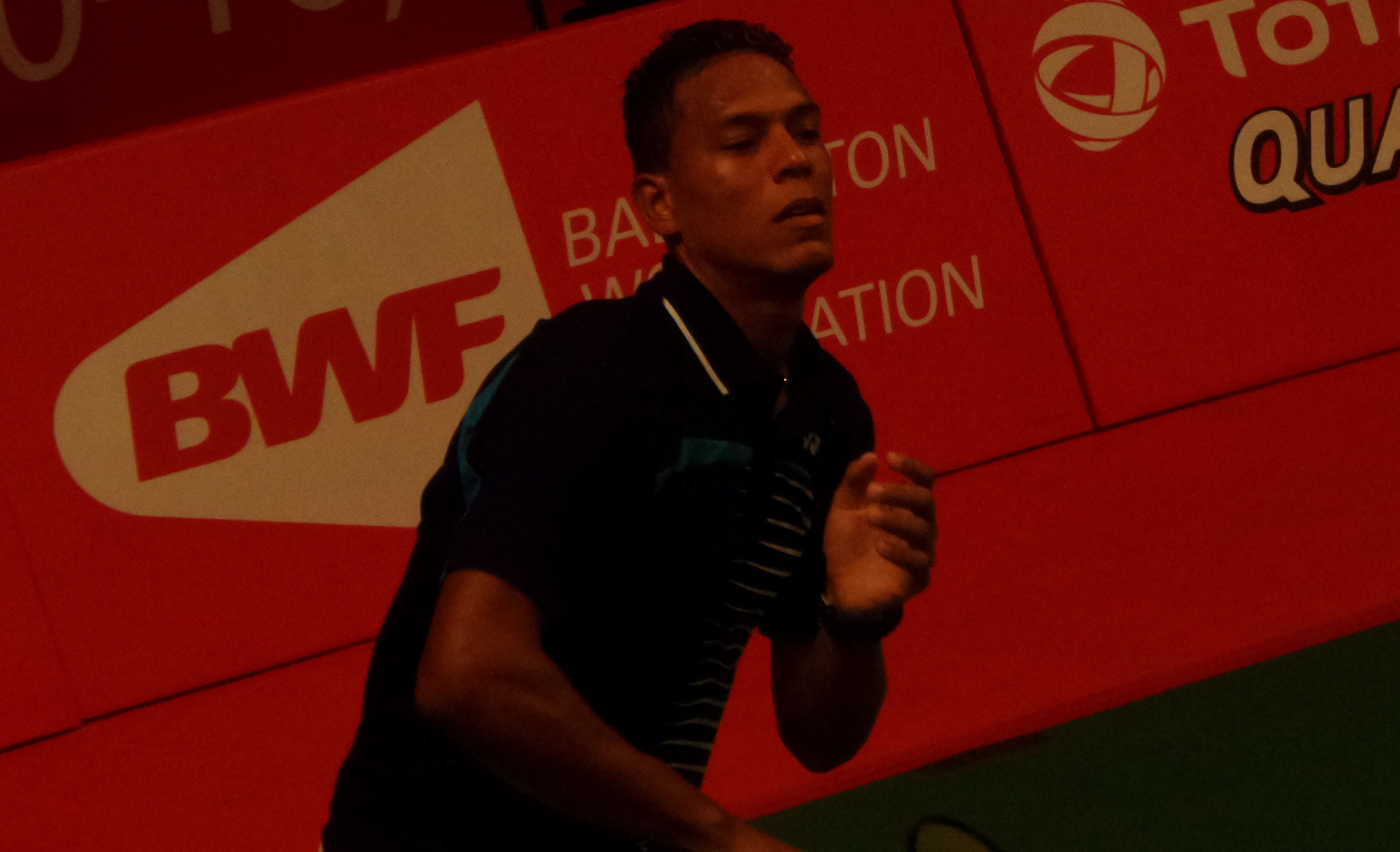 Osleni Guerrero in action during Day 2 of the 2015 BWF World Championships